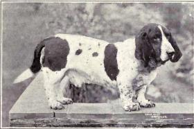 Smooth-coated French Basset Hound from 1915